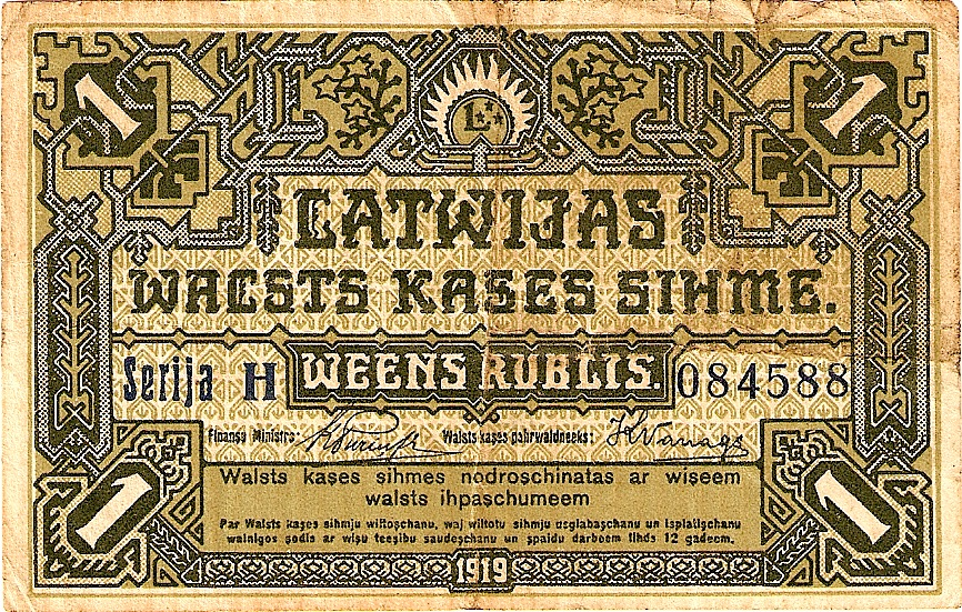 Latvian banknote of 1 rublis (1919)